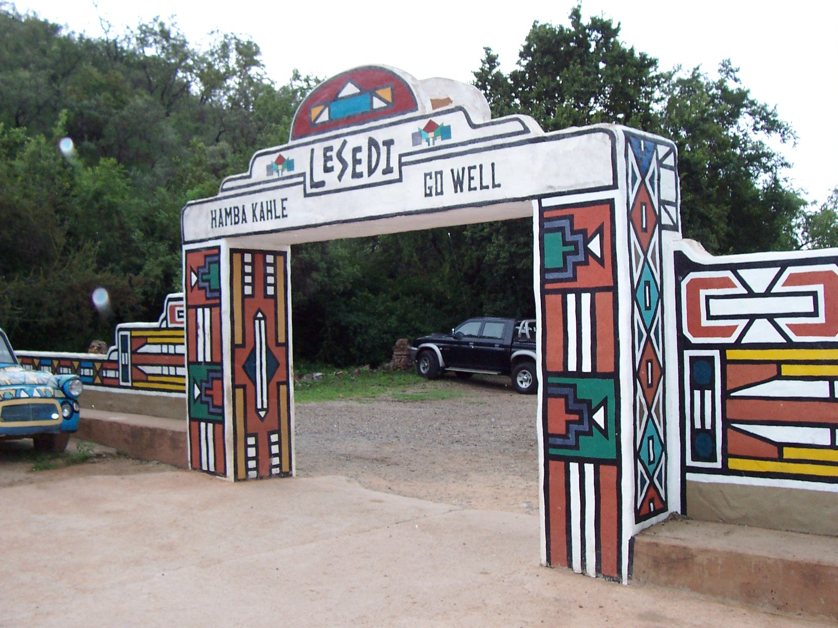 Exit at Lesedi Cultural Village. The colorful car on the far left can be found in this image.